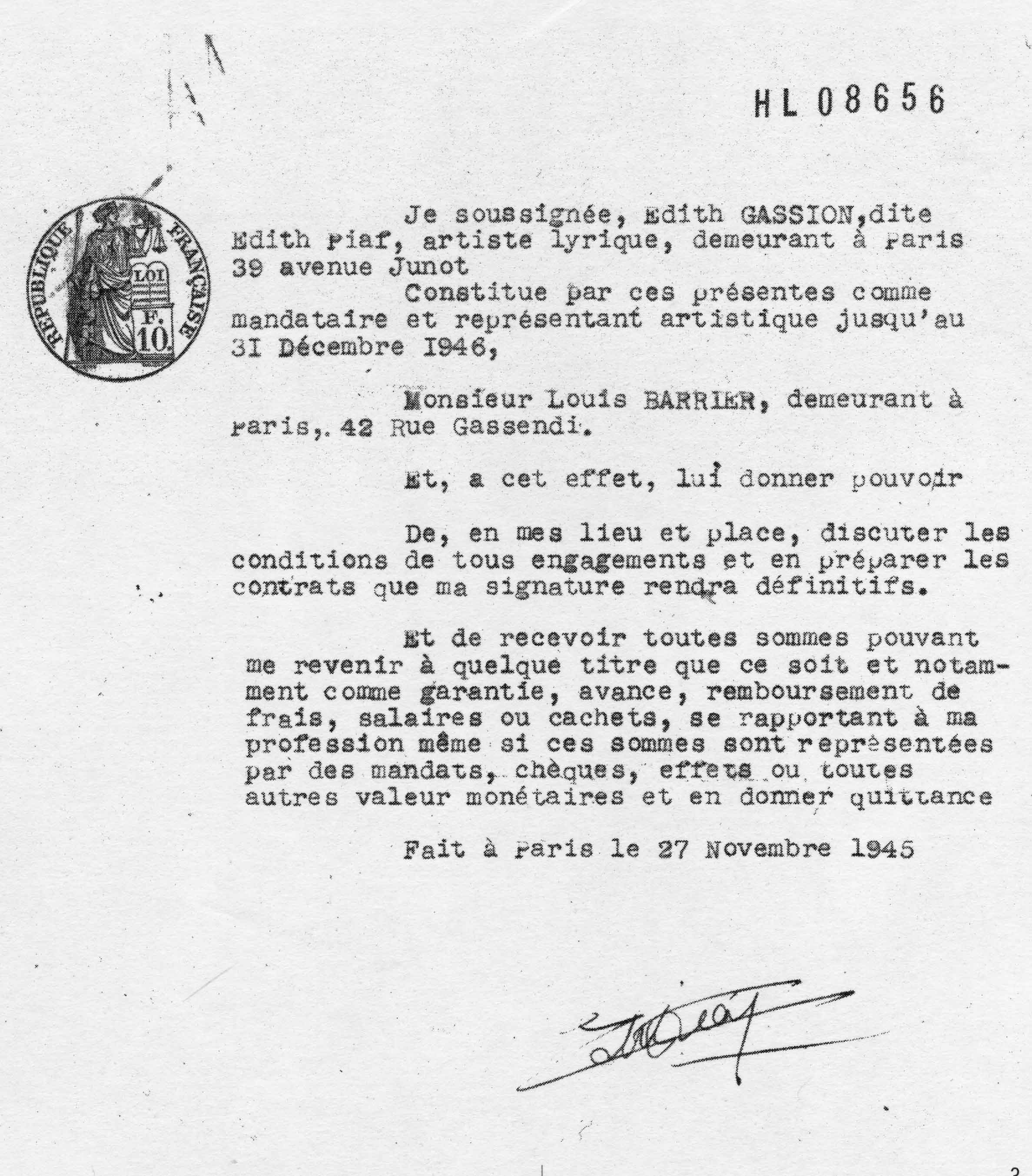 contract between French singer Edith Piaf and impresario Louis Barrier